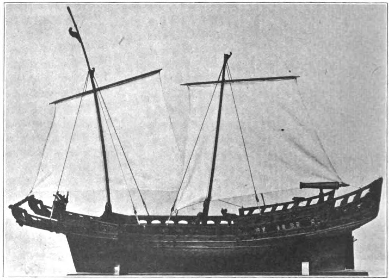 A model of native ship called a lanchang (or lancang), from Siak, on the coast of Sumatra. Collected by Dr. G. Brown Goode.